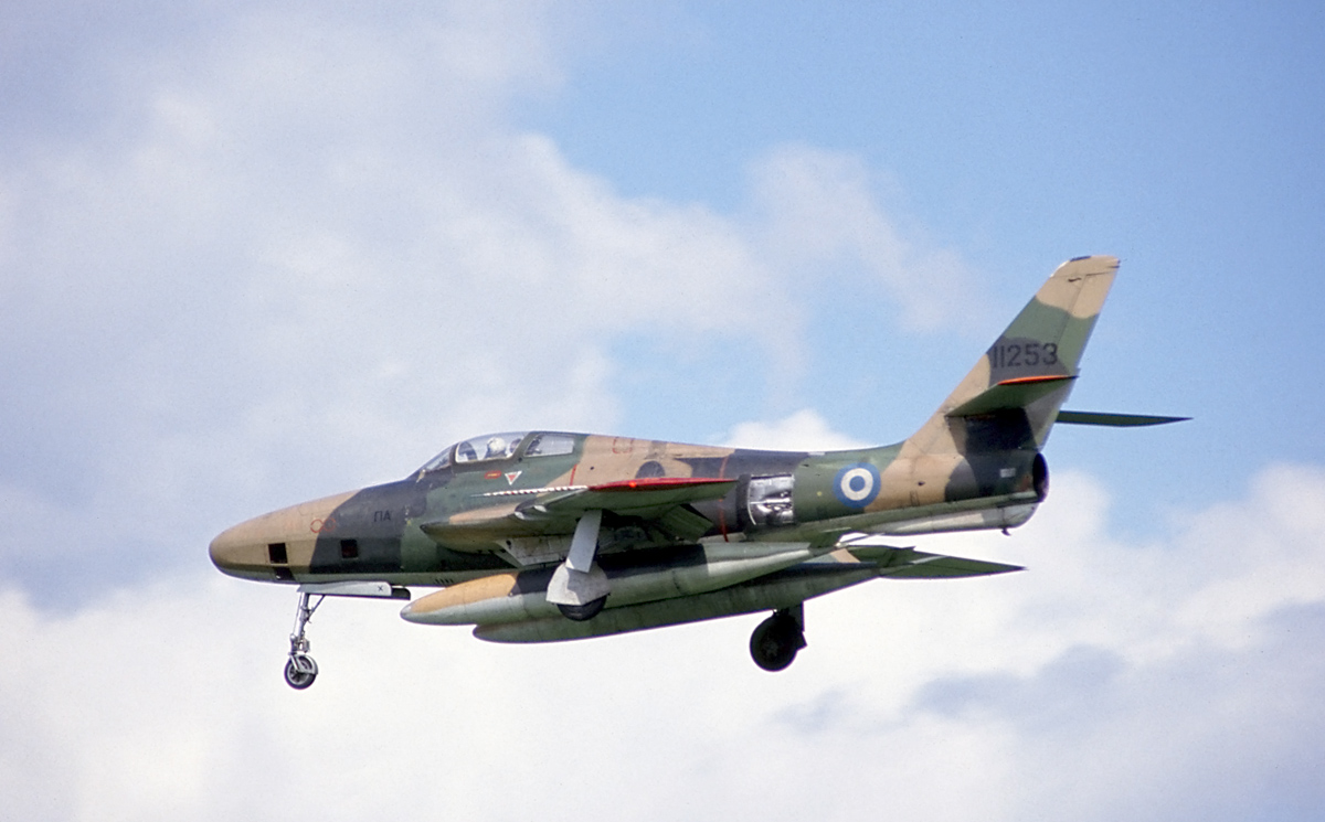 One of the rarest aircraft I've ever seen. On 29 July 1988 this Thunderflash arrived at Volkel (NL) from Greece to be added to the military aviation museum. Fact is, this Flash is a former Dutch Air Force jet.